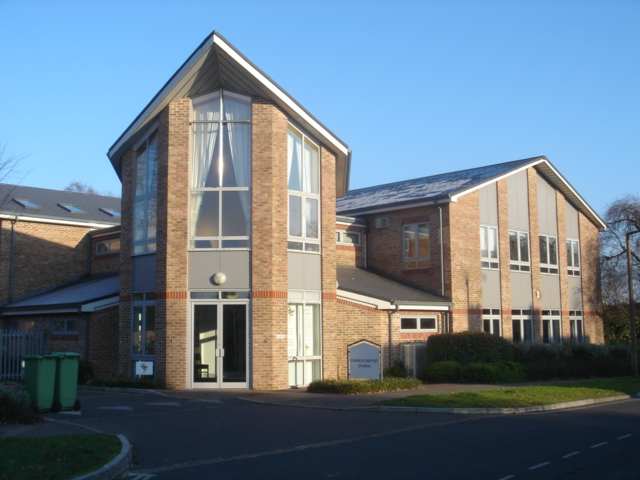 Crawley Baptist Church, Crabtree Road, West Green, Crawley, West Sussex, England. Built in 2003 on the site of a 1954 church which had in turn replaced the town's original Baptist church, built in 1883 and severely damaged by a World War II bomb.